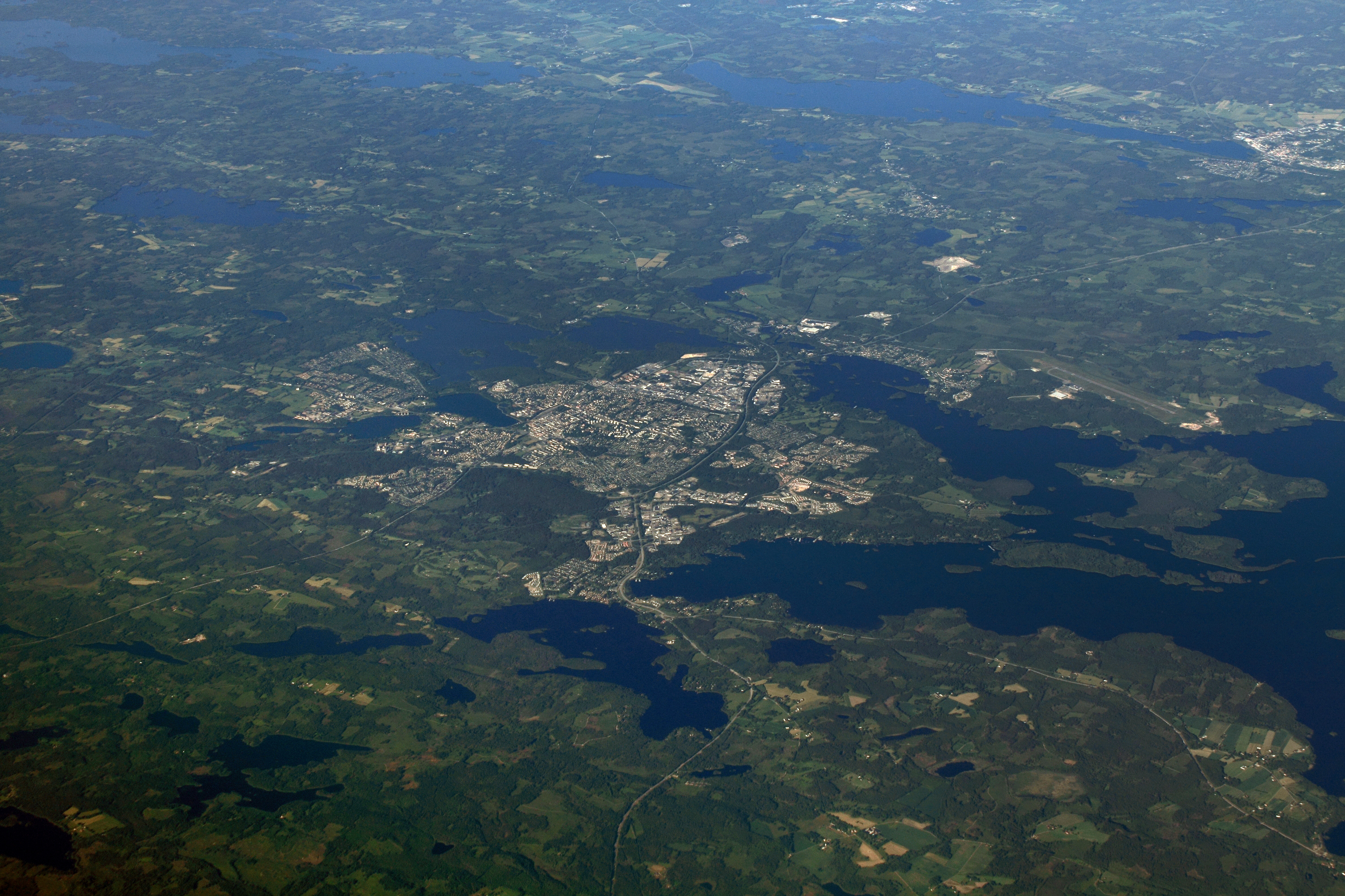 The city of Växjö seen from a commercial flight between Norway and Poland.